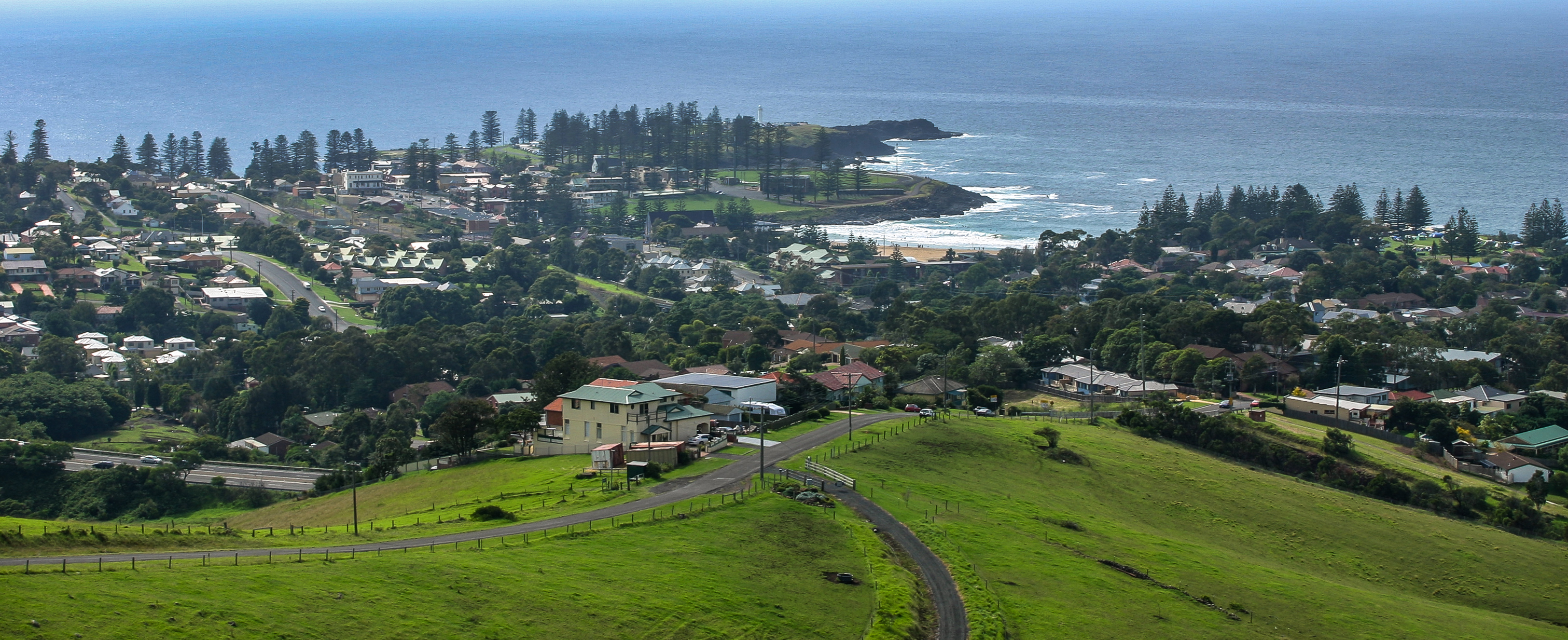 Kiama, New South Wales, Australia